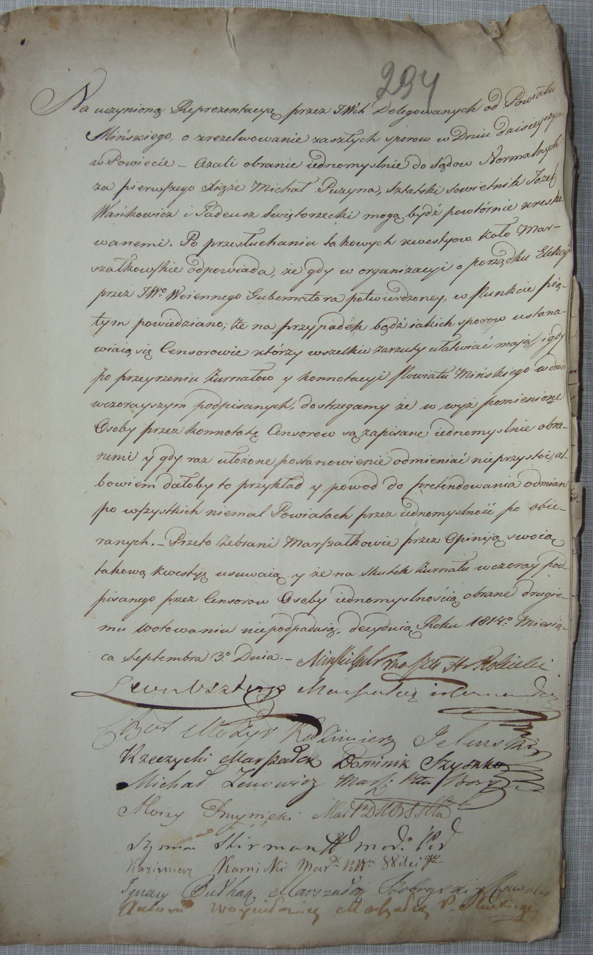 Page from the Minsk region marshal of nobility journal, 1814 AD